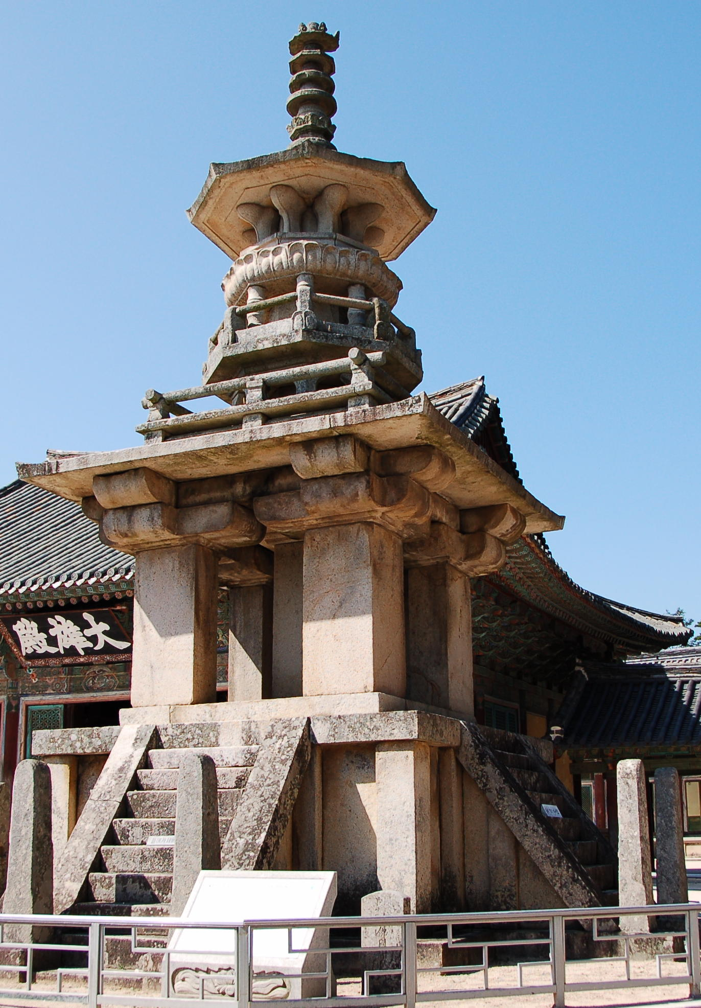 The Bulguksa Dabotap here in Gyeongju, is a stone pagoda, which was erected during the unified Silla period and differs substantially from other pagodas in terms of structure. This 10.4 metre tall pagoda's official name is “Dabo Yeorae Sangju Jeungmyeongtap.” This name is derived from the Beophwagyeong (Saddharma-pundarika sutra) in whom Dabo Yeorae is always verifying the truth of Seokga Yeorae. The structure of this pagoda is not seen in other Buddhist countries. It was reportedly built in 751 during the 10th year of the Silla king Gyeongdeok. The pagoda has four stairways flanking the four sides of the pagoda’s base. Four square corner pillars set up on the corner stone for the base have the crossing stone pedestal supporting the stone roof. On top of the stairway, a stone lion sits on its hunch. There is a stone square railing on the roof. Eight bamboo shaped stone pillars support the octagonal shaped lotus stone which was carved with sixteen lotus petals. Above the stone lotus, eight stone pillars support the octagonal stone roof with the finial. This monument has been designated as National treasure No.20 by the South Korean government. South Korea.